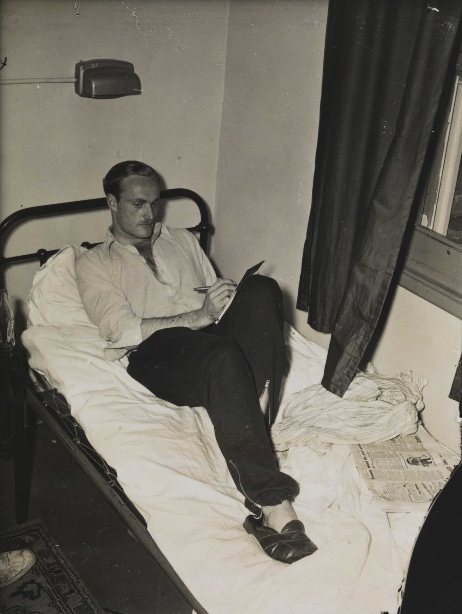 Alistair McCorquodale who finished 4th in the 100 metres final, seen taking it easy, in one of the Olympic Villages. McCourquodale narrowly lost the Bronze in a photo finish in the 100m event but did win silver in the 4x100m relay. he never ran again after the Olympics but went on to represent the MCC and Middlesex County Cricket club. Daily Herald Archive at the National Media Museum We're happy for you to share this digital image within the spirit of The Commons. Certain restrictions on high quality reproductions of the original physical version of apply though; if you're unsure please visit the National Media Museum website. For obtaining reproductions of selected images please go to the Science and Society Picture Library.